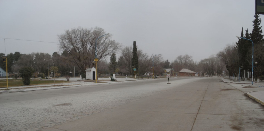 Square in Picún Leufú city in Neuquén Province, Argentina.